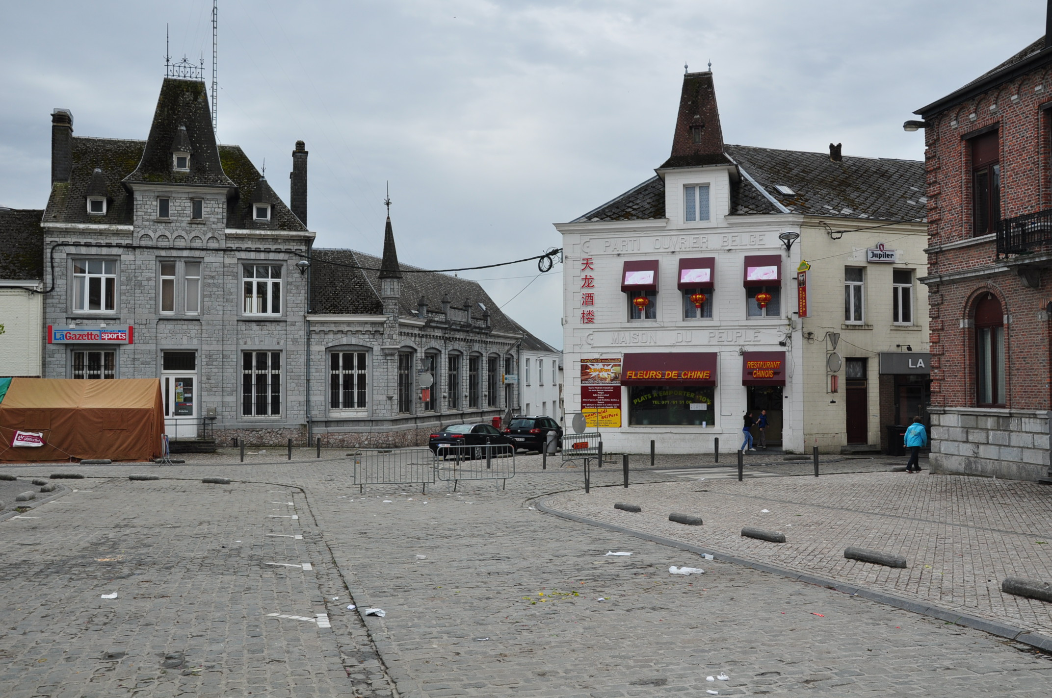 Southwestern corner of the main square (Place d'Armes) in Philippeville (Belgium) with the former House of the People of the Belgian Workers' Party -currently the Belgian Socialist Party- converted into a Chinese Restaurant.